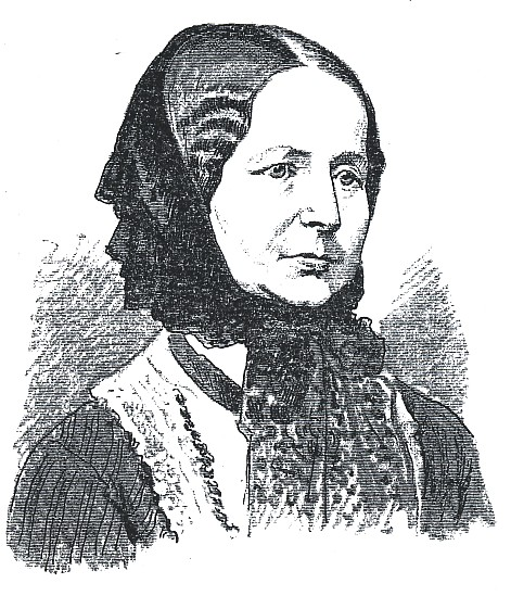 Picture of German writer Hedwig Prohl.